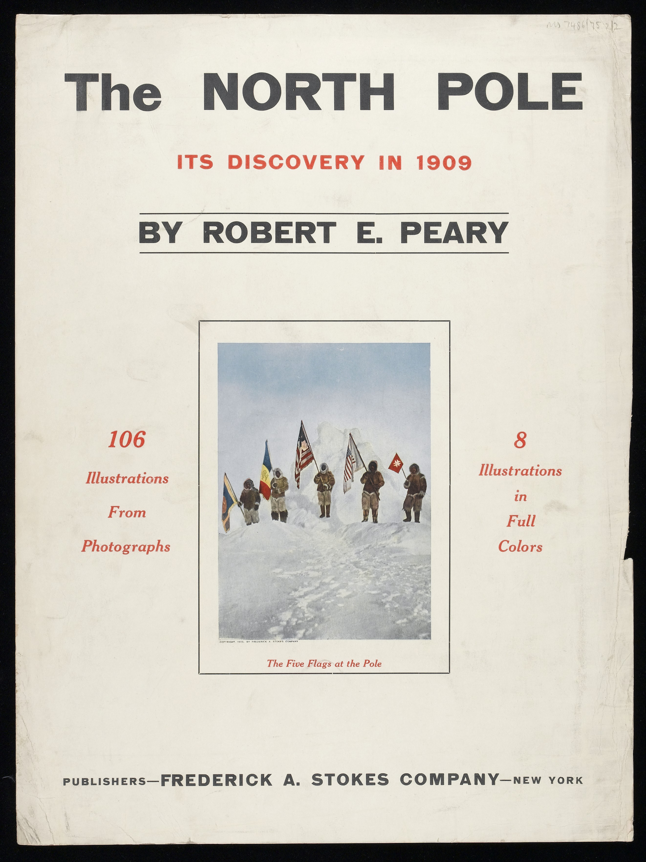 Copy of the cover of "The North Pole: its discovery in 1909" by Robert Peary, 1910. Archives & Manuscripts Keywords: Exploration